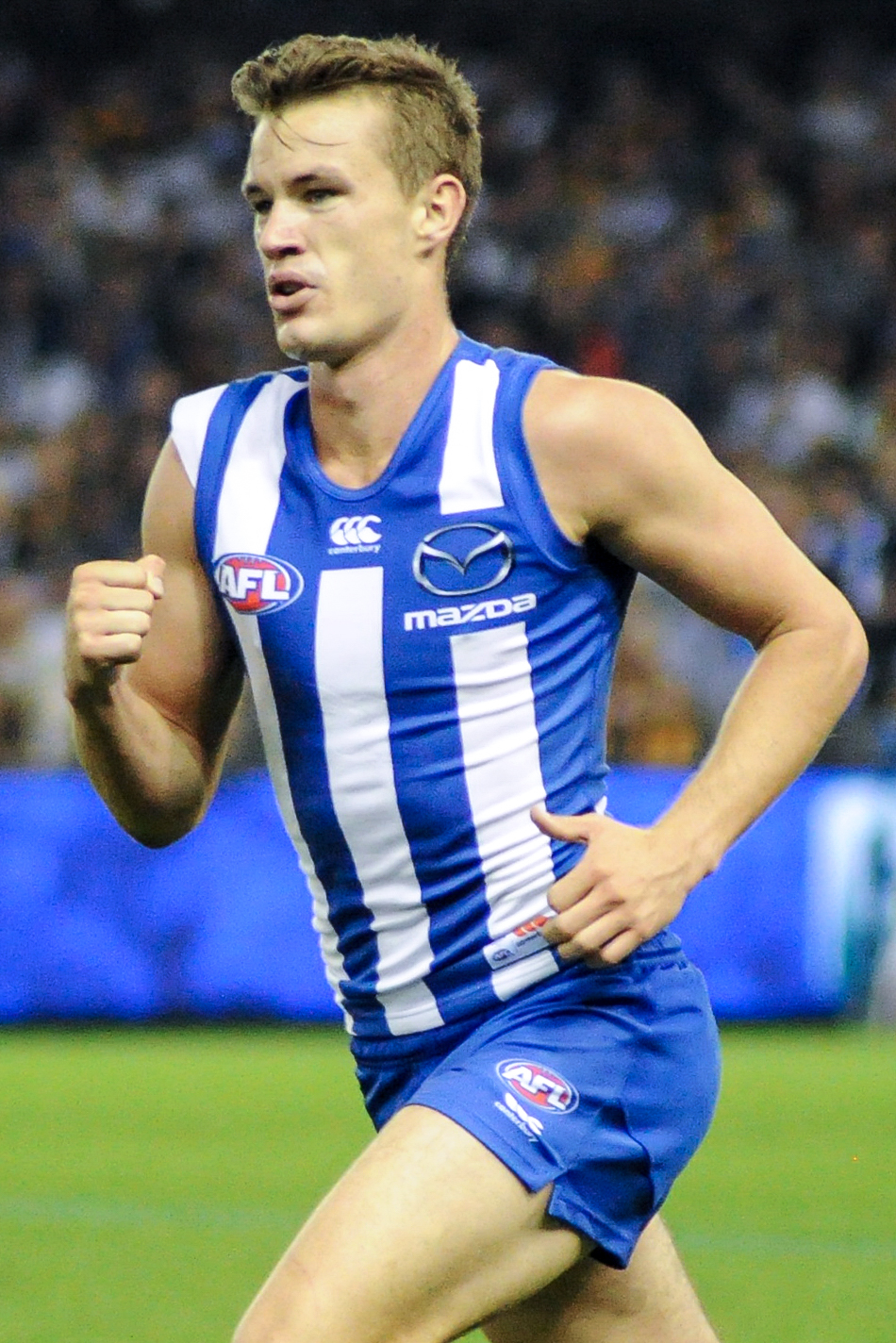 Kayne Turner during the AFL round five match between North Melbourne and Hawthorn on Sunday, 22 April 2018 at Etihad Stadium in Melbourne, Victoria.